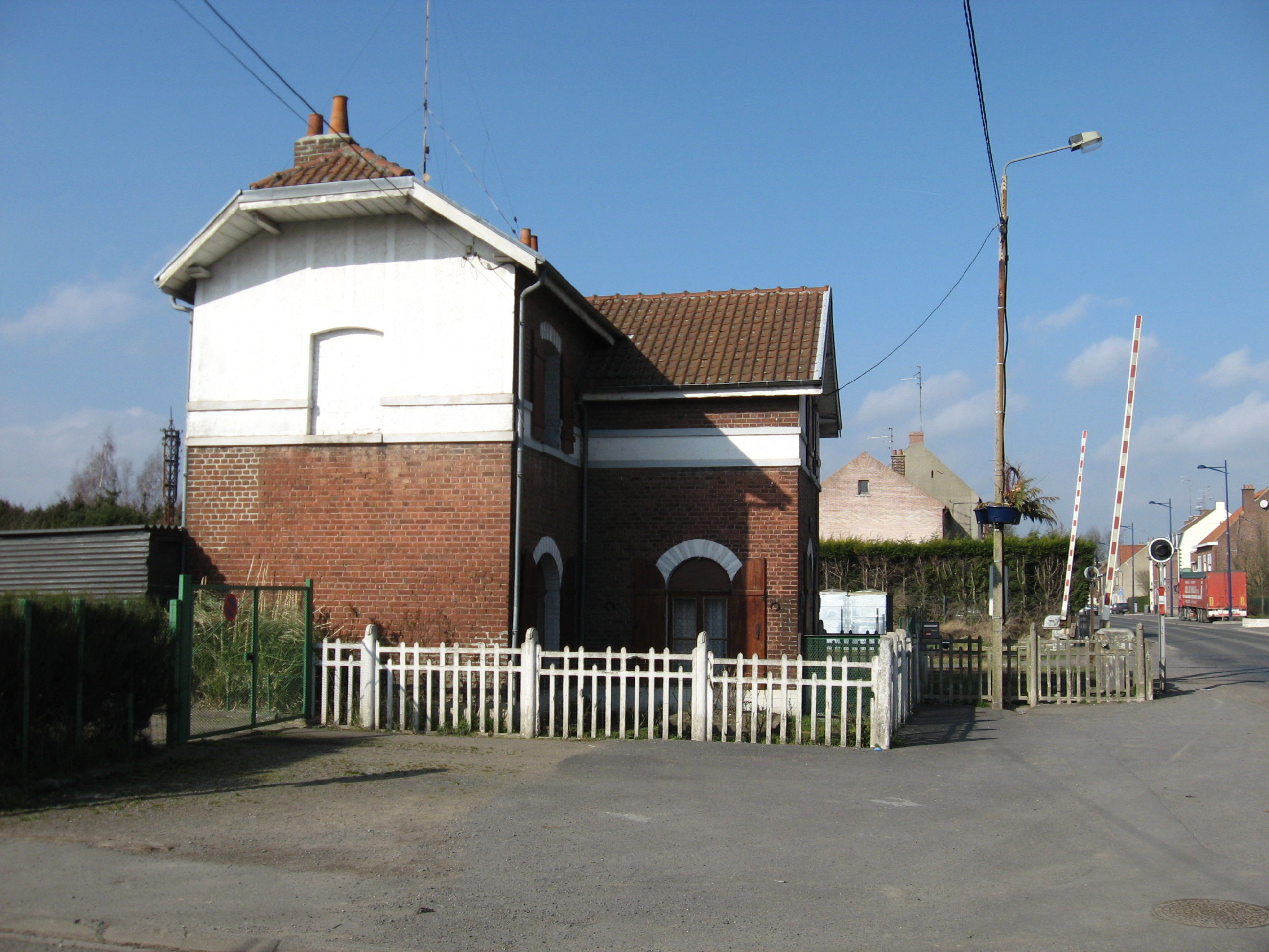 Blanc-Misseron is the border station on the French site off the disused Valenciennes Mons mainline. Opened in 1846. A Level-crossing guardhouse. The bigger stationbuilding no longer exists.